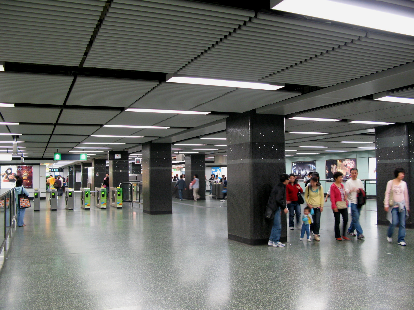 港鐵鑽石山站大堂 HK MTR Diamond Hill Station Concourse